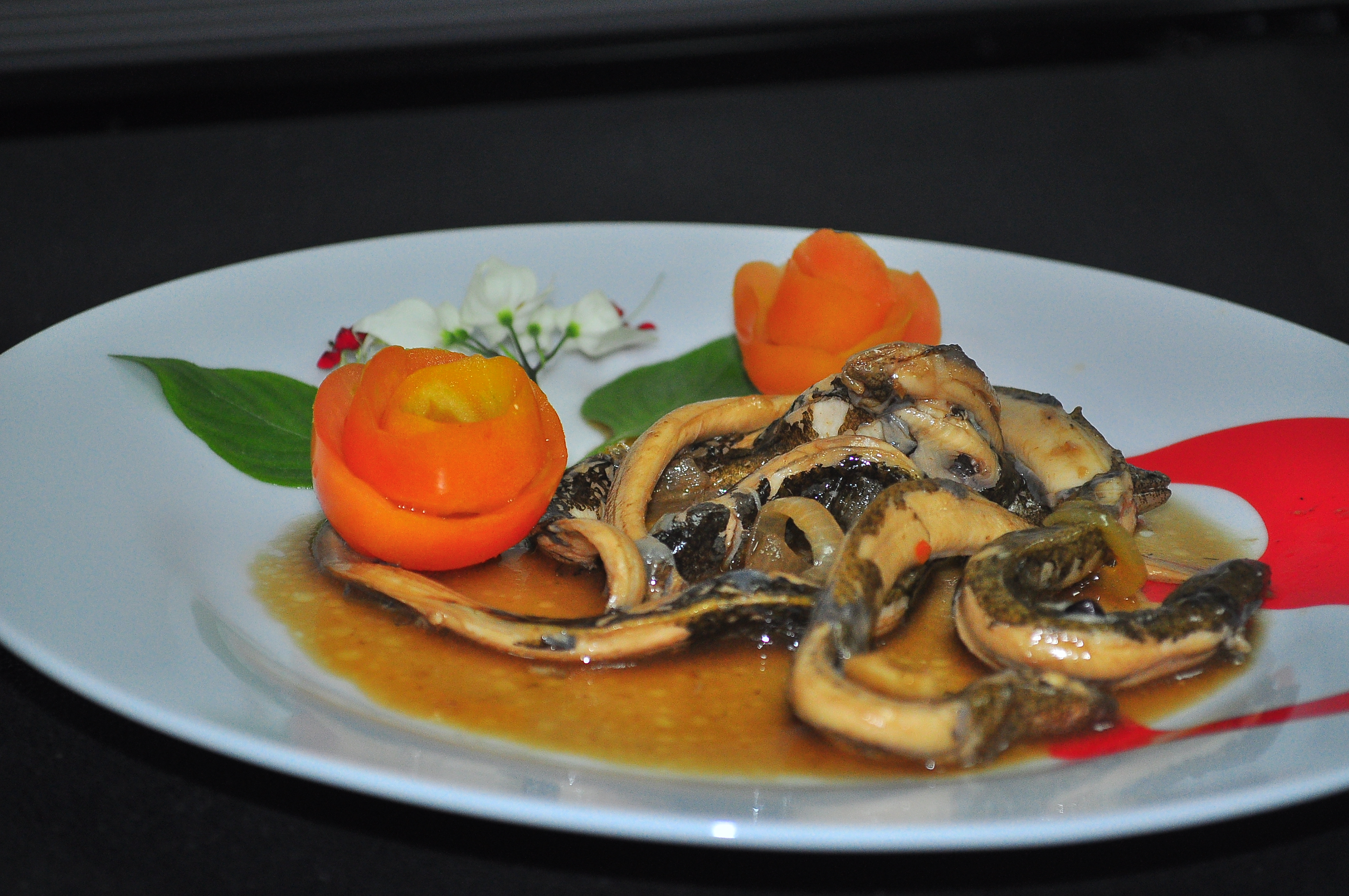 Just for my love for bakasi, a yummy sea eel cooked with garlic, bulb onion and ginger with black beans. No, Im not the one cooking this, just bought this from the newly opened canteen at Philcoil, but the garnishing is mine. A tomato rose with flower and mint leaves.